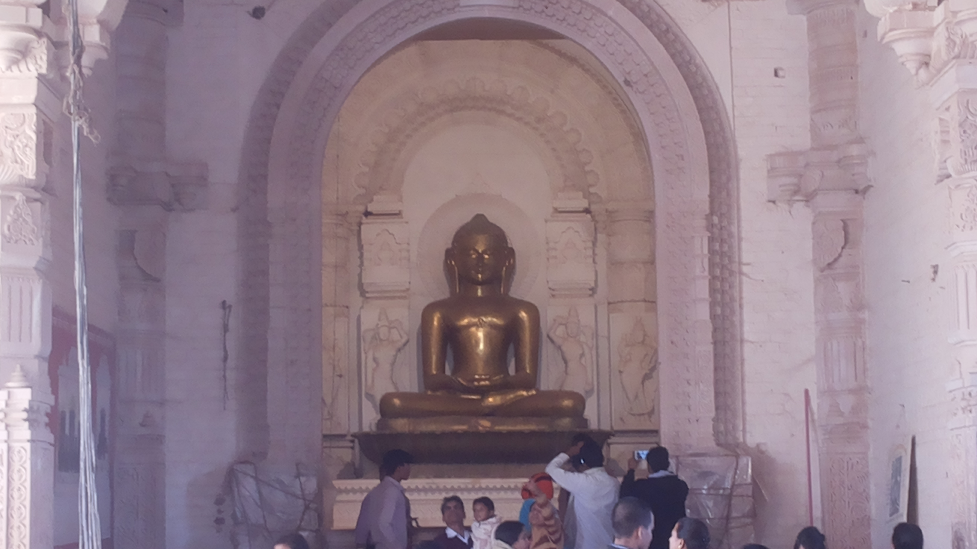 This is a very beautiful place which is located in amarkantak [mp]. There are many beautiful waterfalls,old temples and there is also the narmada udgam. There is also a beautiful Jain temple.